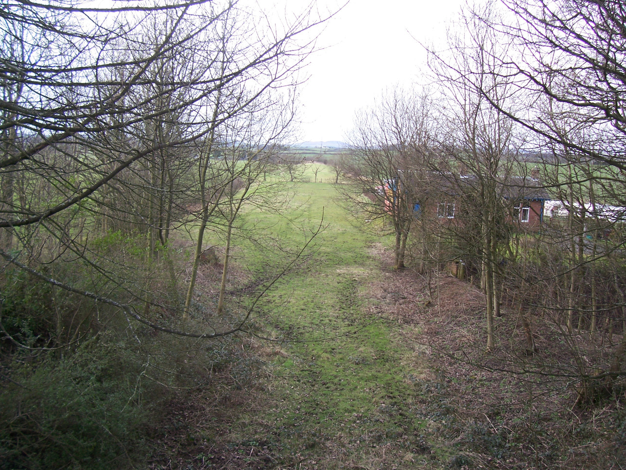 The site of Montgreenan railway station, near Kilwinning, Ayrshire, Scotland in February 2007. Originally built by the Glasgow and South Western Railway on the Glasgow, Montgreenan served as an intermediate station on the line between Dalry and Kilmarnock. The station building is visible to the right (now a private residence), and the trackbed outline of the line to Dalry can be seen continuing into the distance.